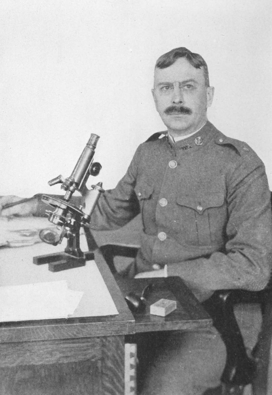 Charles Wardell Stiles